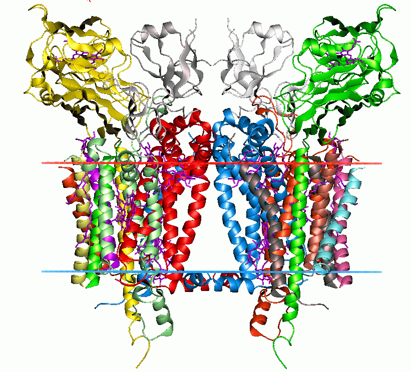 Structure of the cytochrome b6f (plastohydroquinone : plastocyanin oxidoreductase) from Chlamydomonas reinhardtii. Protein image from OPM database. Red line: membrane surface on the thylakoid space side. Blue line: membrane surface on the stroma side.